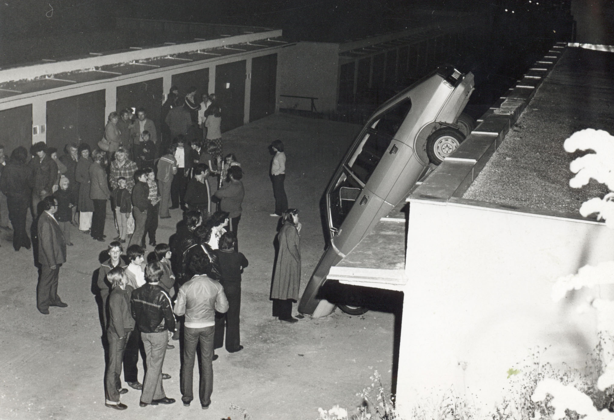 Accident in Uherský Brod (Simca 1307/1308)